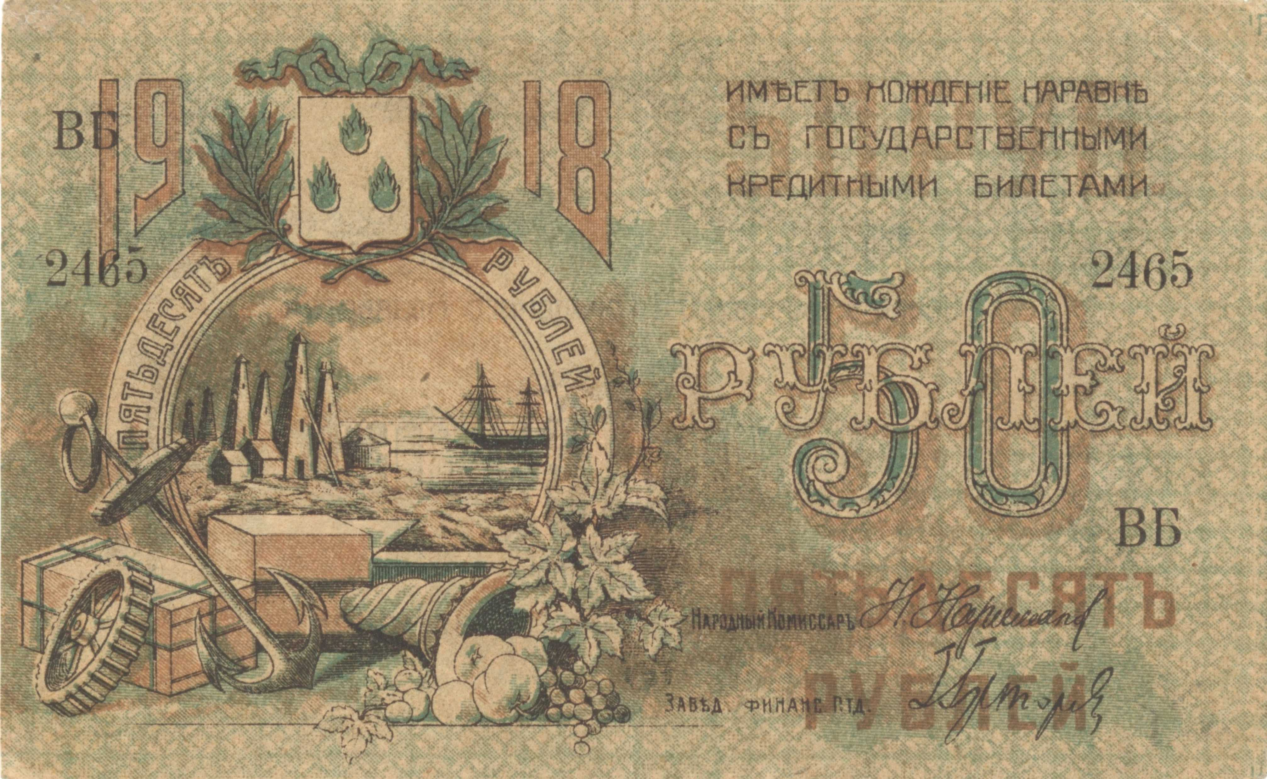 50 rubel (Baku 1918)